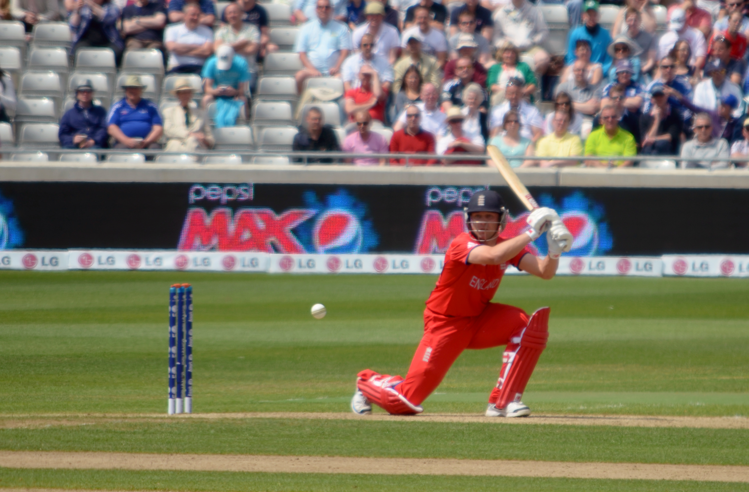 Jonathan Trott batting for England in their victory over Australia during the 2013 ICC Champions Trophy game at Edgbaston.